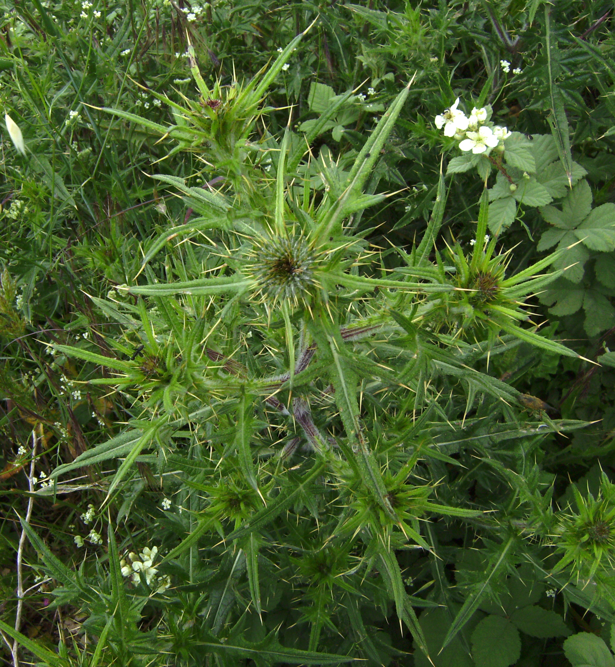 Cirsium vulgare before flowering, Castelltallat, Catalonia